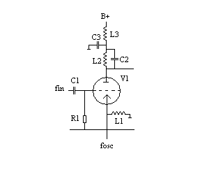 Radio Mixer